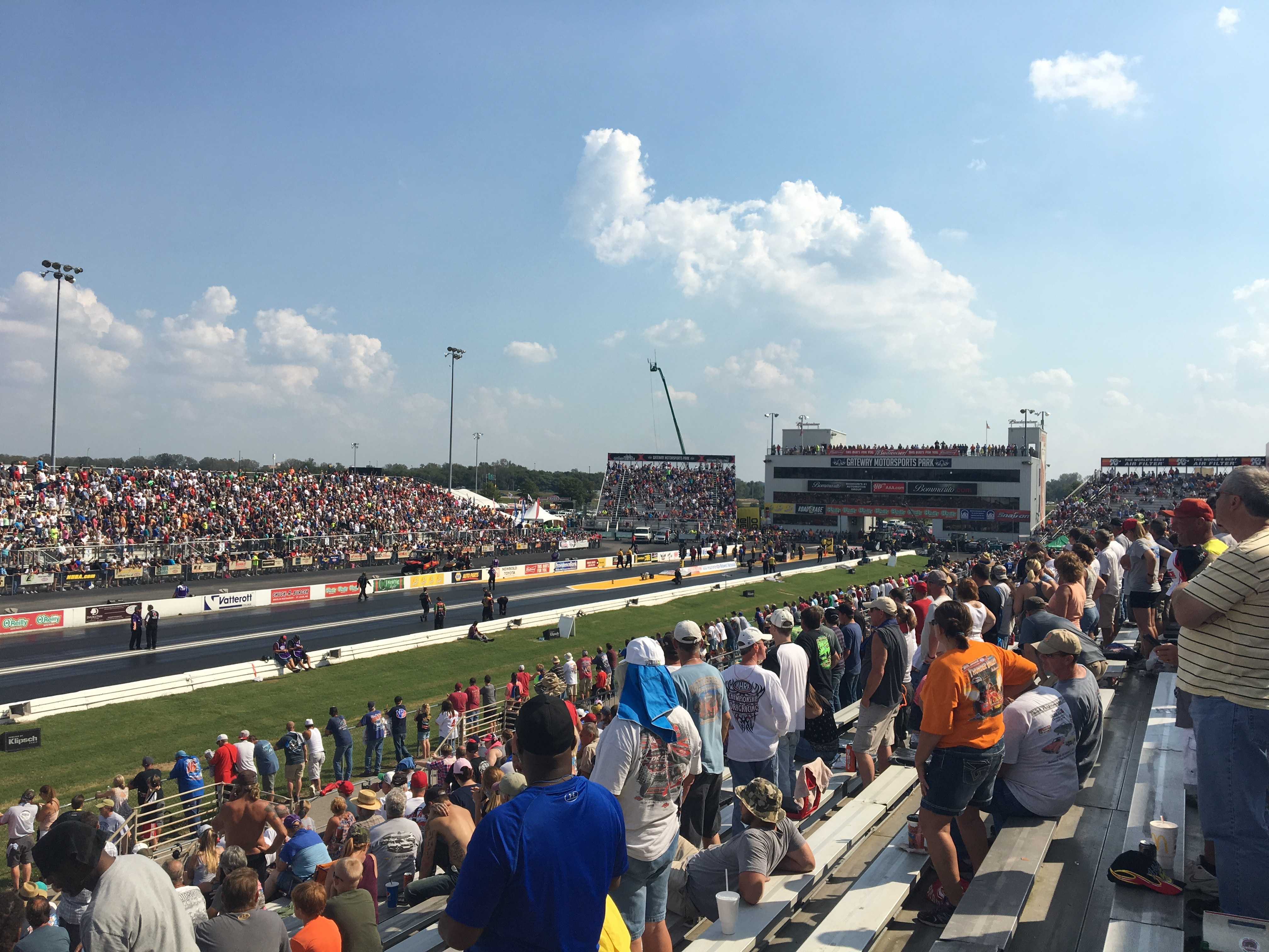 Gateway Motorsports Park's starting line tower at the 2016 AAA Insurance Nationals